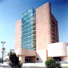 personal picture of a diary